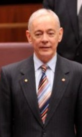 Cropped photograph of Bob Day at Parliament House for his swearing-in as a new Senator in July 2014